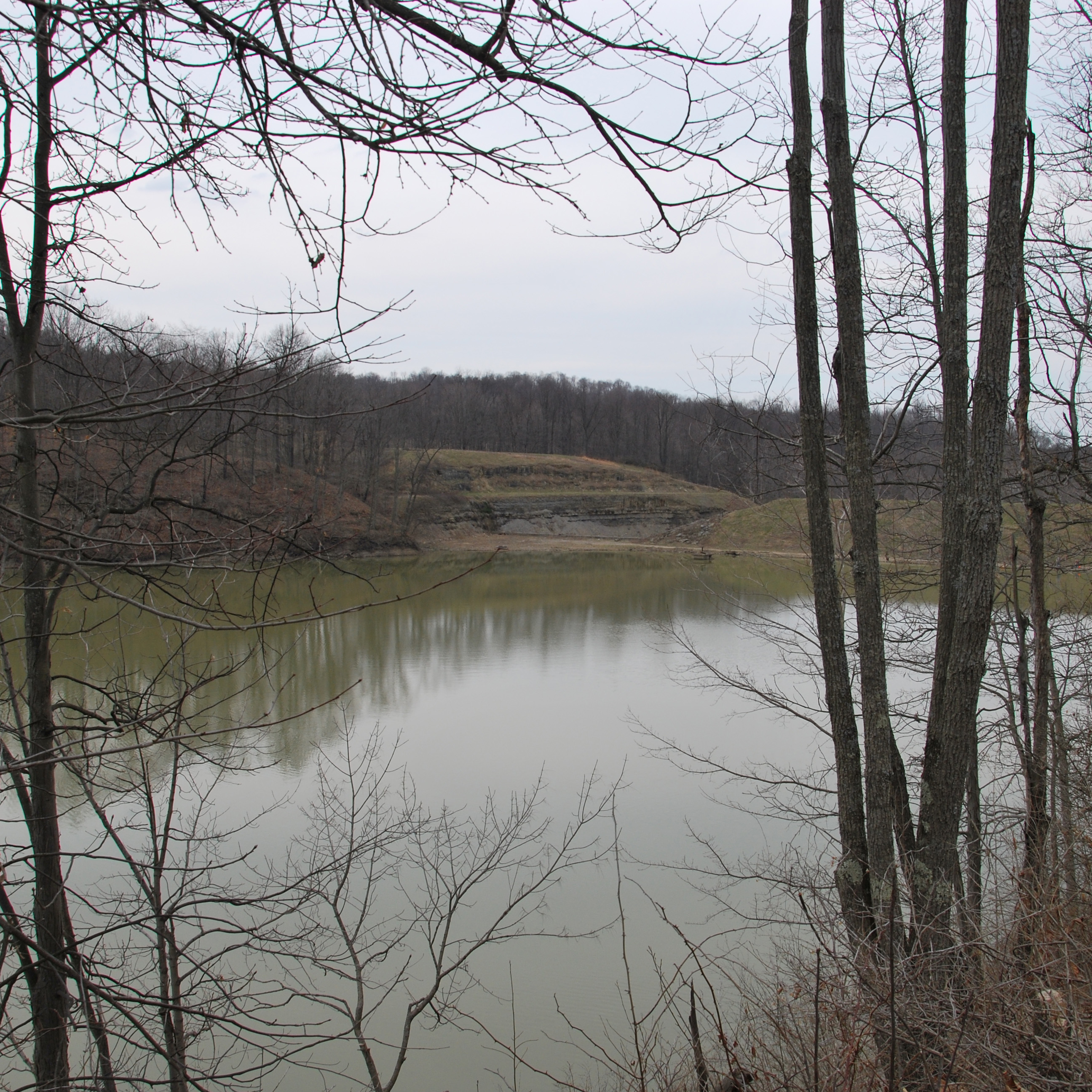 Lake at Castleman Run Lake Wildlife Management Area.